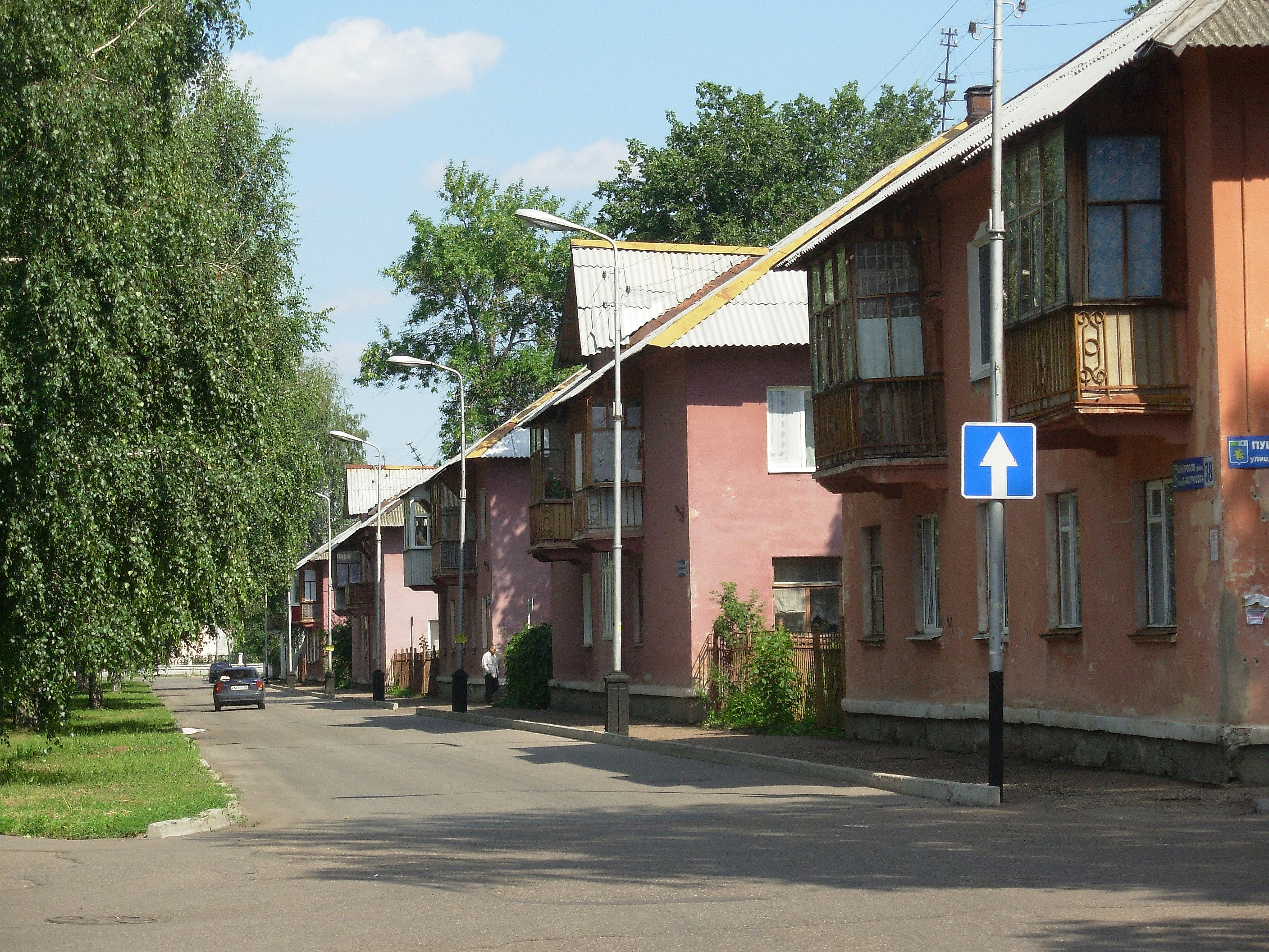 matrosova street salavat